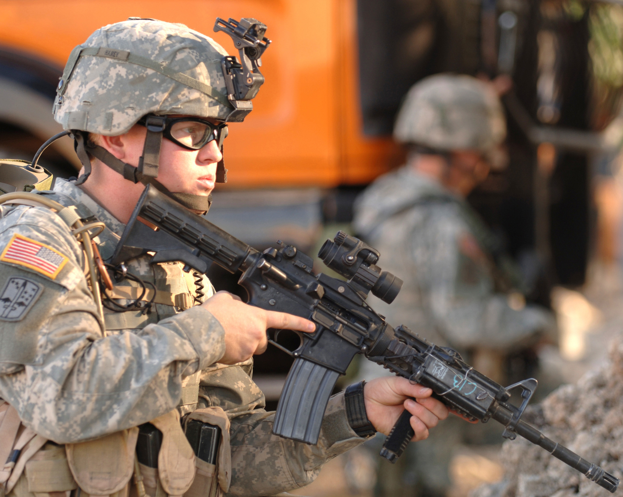 Spc. Nicholas Haney, from the 23rd Infantry Regiment, 172nd Stryker Brigade Combat Team, patrols Mosul, Iraq.